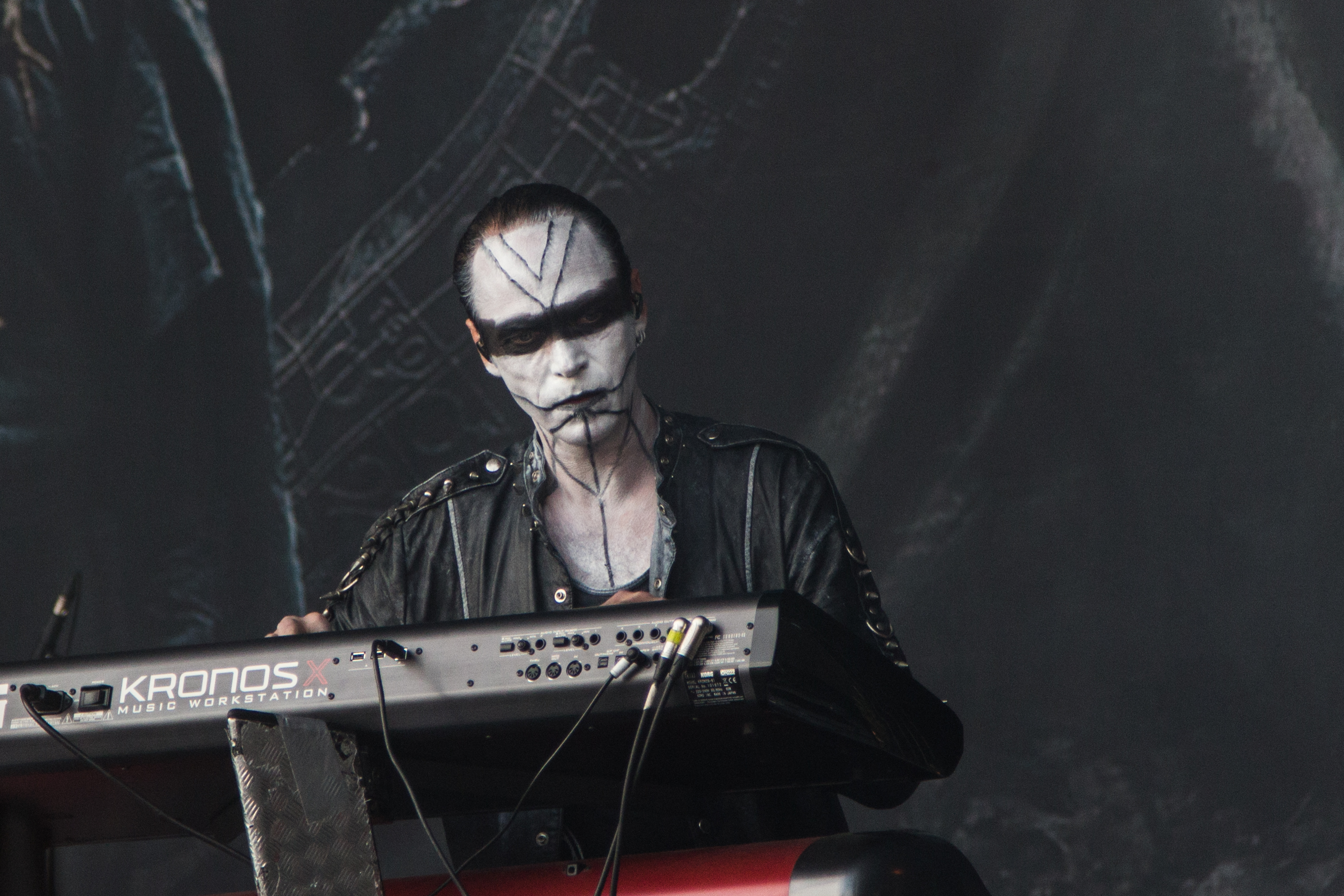 Geir Bratland from Dimmu Borgir at the See-Rock Festival 2014